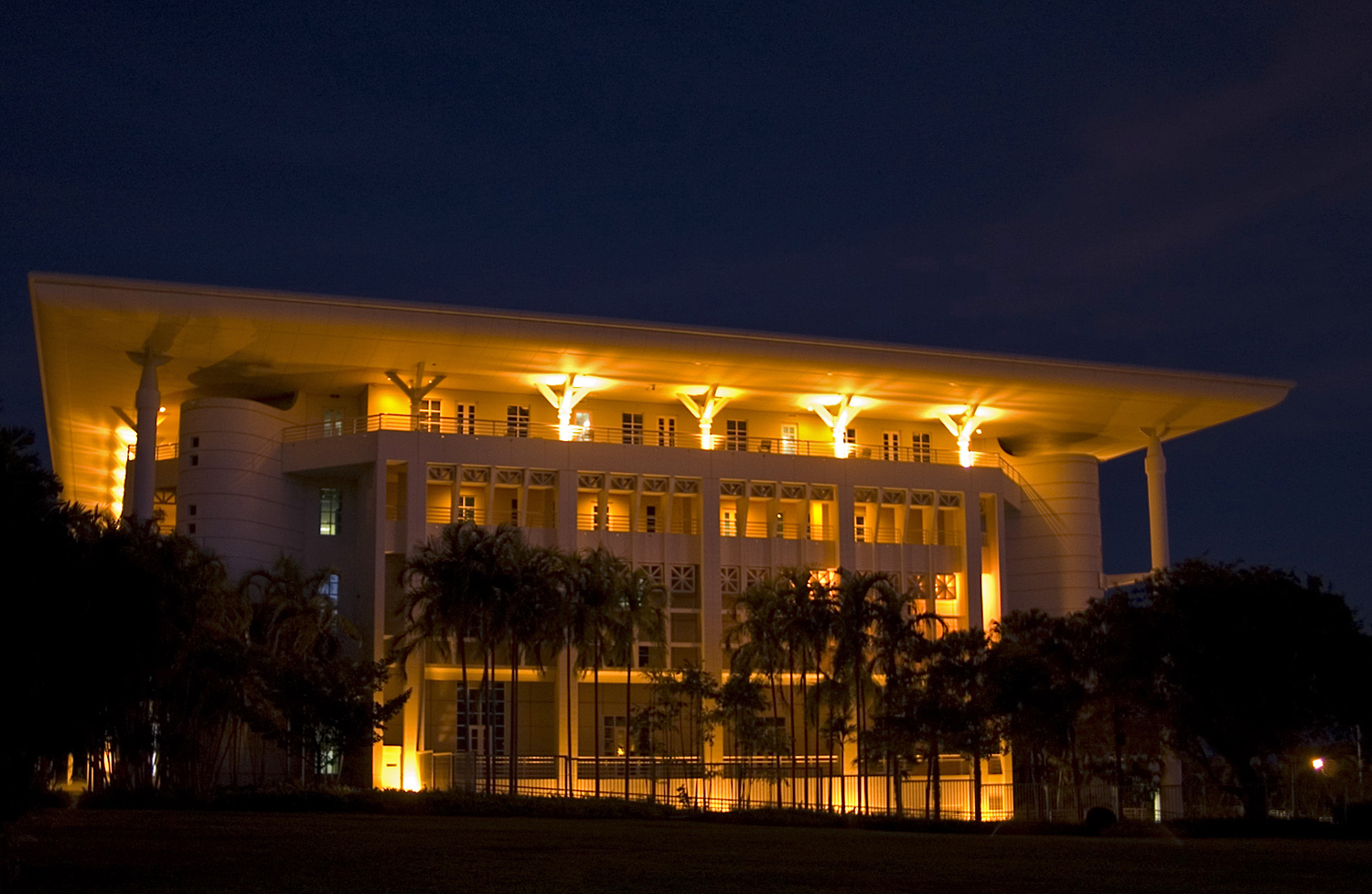 Legislative Assembly of the Northern Territory at Night.